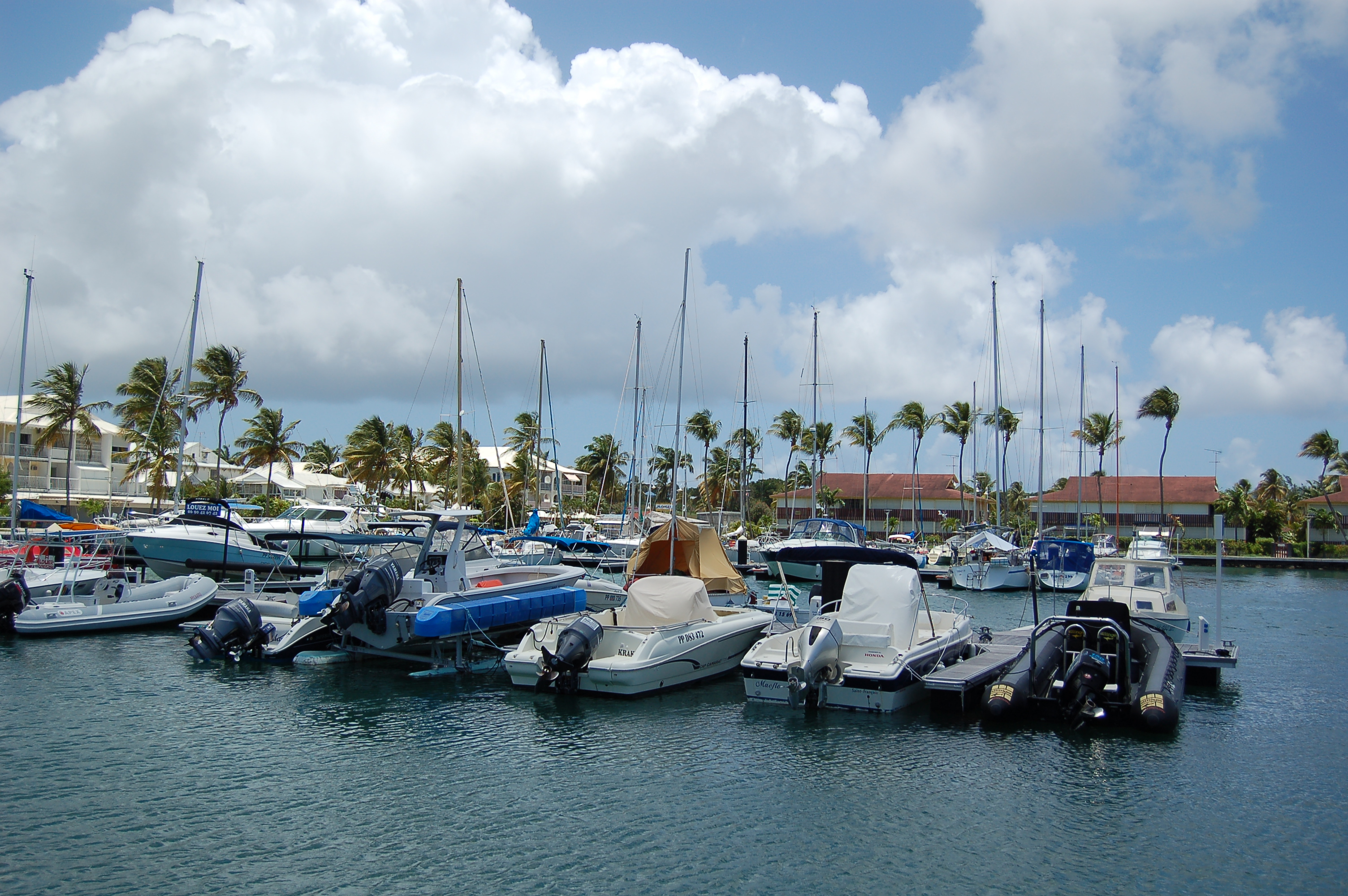 Marina in Saint François, Guadeloupe